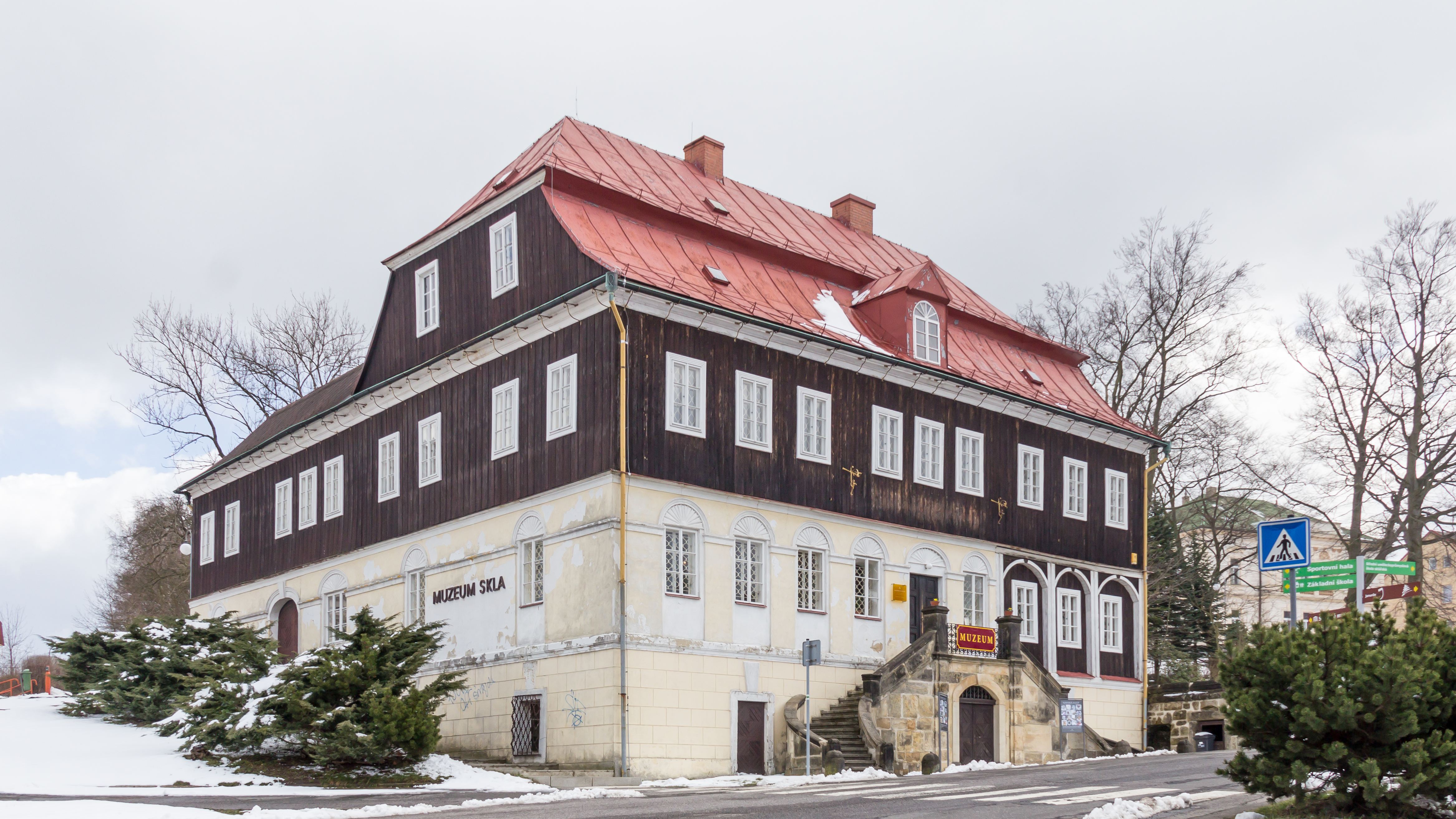 Glass museum Kamenický Šenov